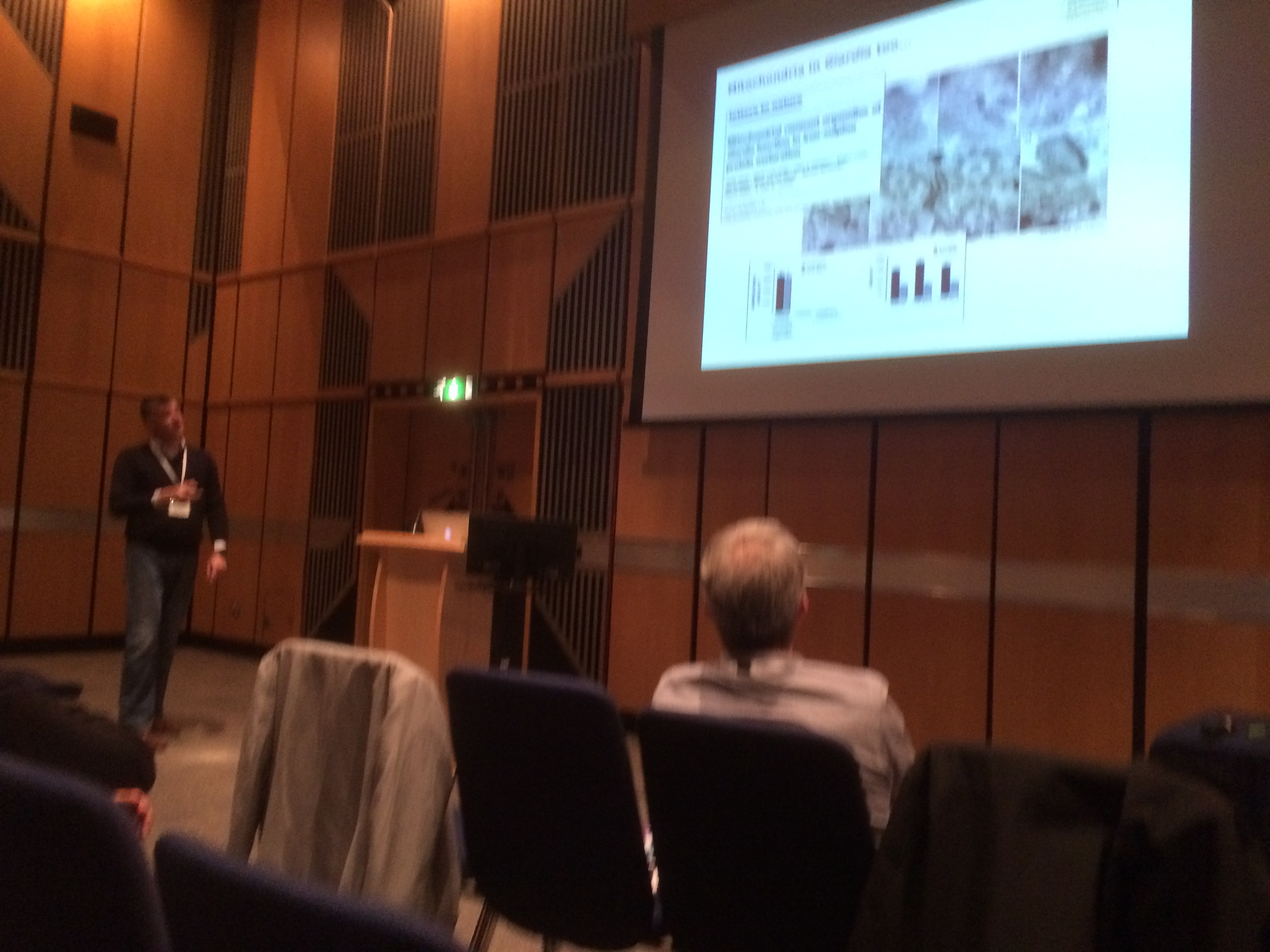 Mark van der Giezen lecturing at Then Society for General Microbiology Symposium "The Building Blocks of Microbial Evolution". International Conference Centre, Birmingham, UK